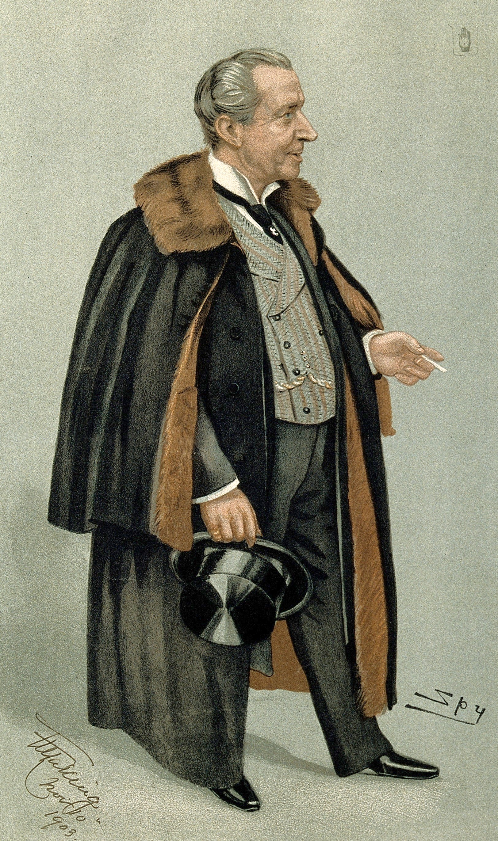 Caricature of Sir Francis Laking. Caption read "The King's Physician".